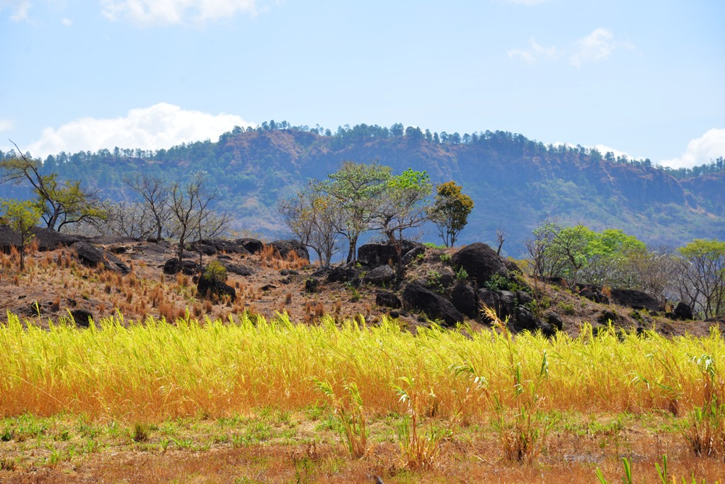 Valle San Nicolás, Achuapa, NIcaragua